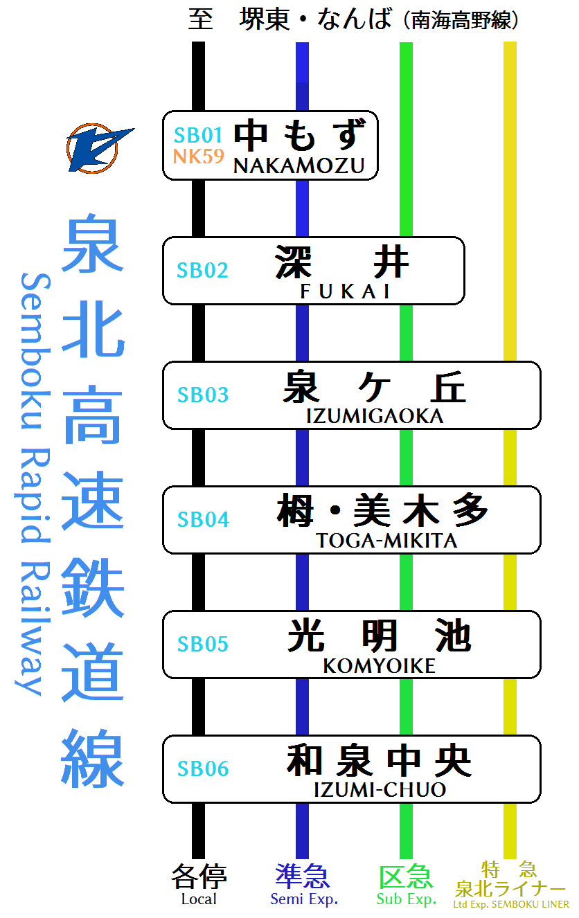 Route map of Semboku Rapid Railway